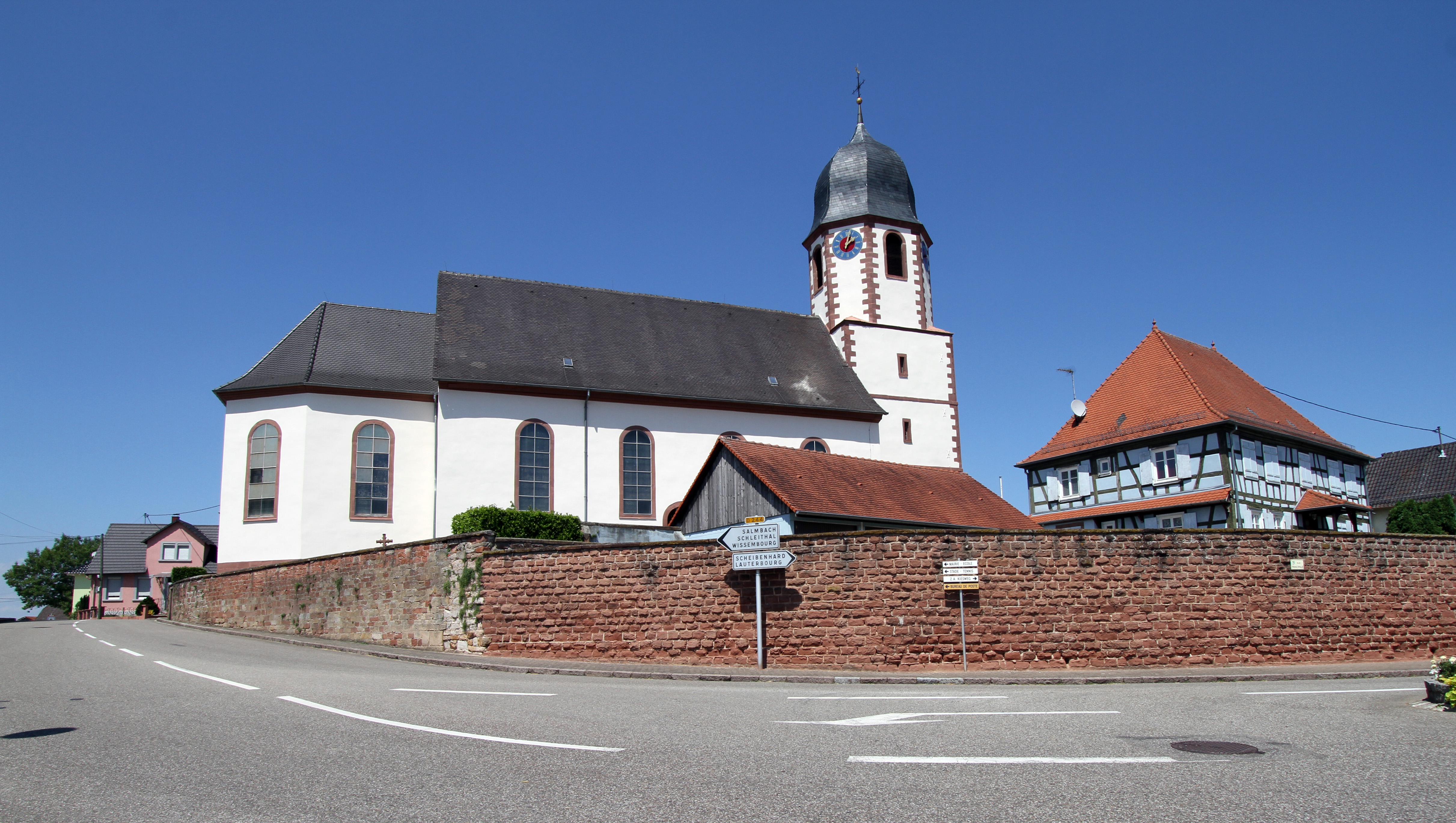 Church of St. Margareta in Niederlauterbach.